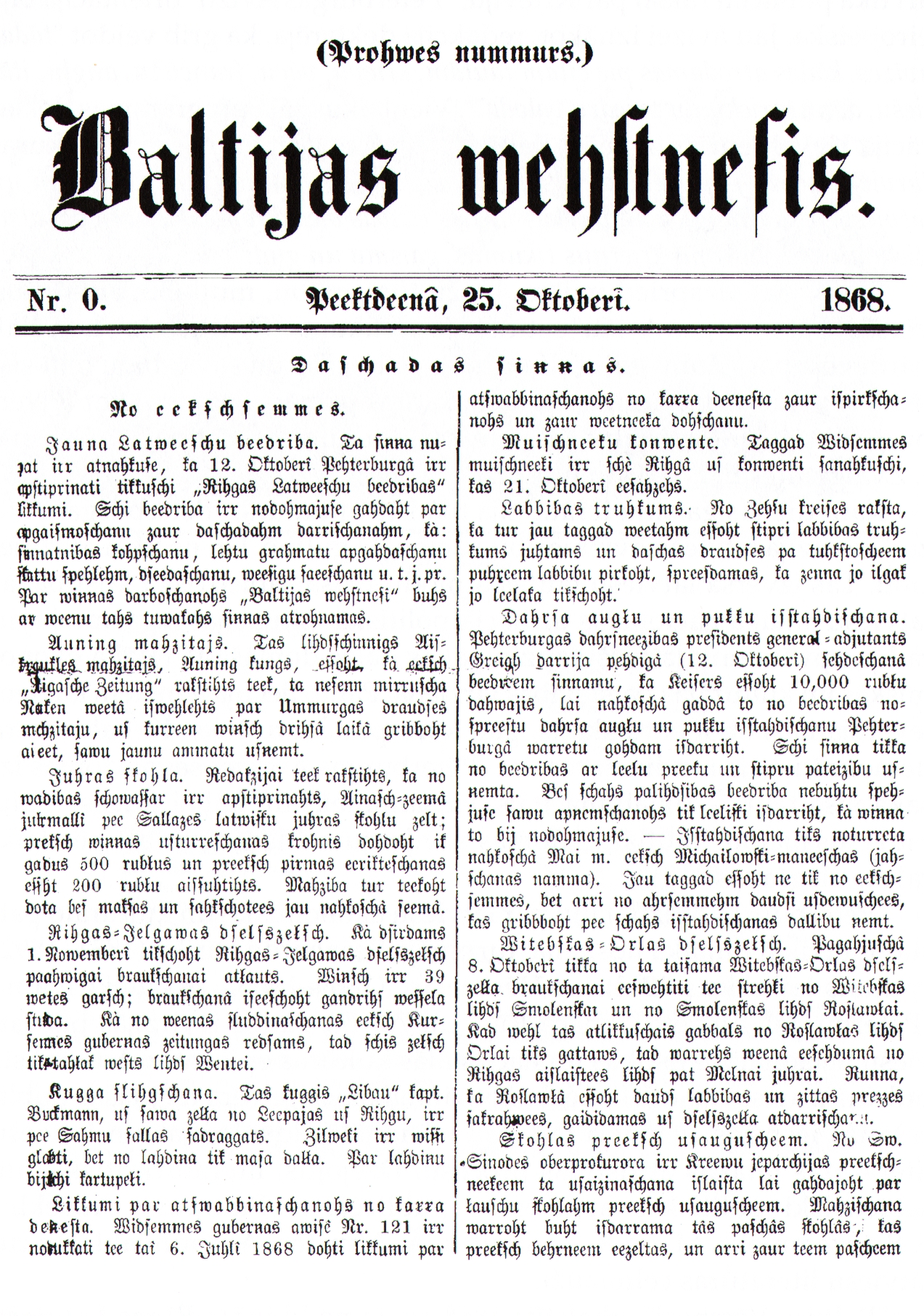 Latvian Journal Baltijas Vēstnesis, first volume 1868